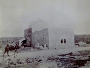 Rachel's Tomb, Near Bethlehem, 1891. From original silver print in book titled: "A Month in Palestine and Syria, April 1891," (author unknown). Original 19th century book in the possession of Kimberly Blaker, New Boston Fine and Rare Books.